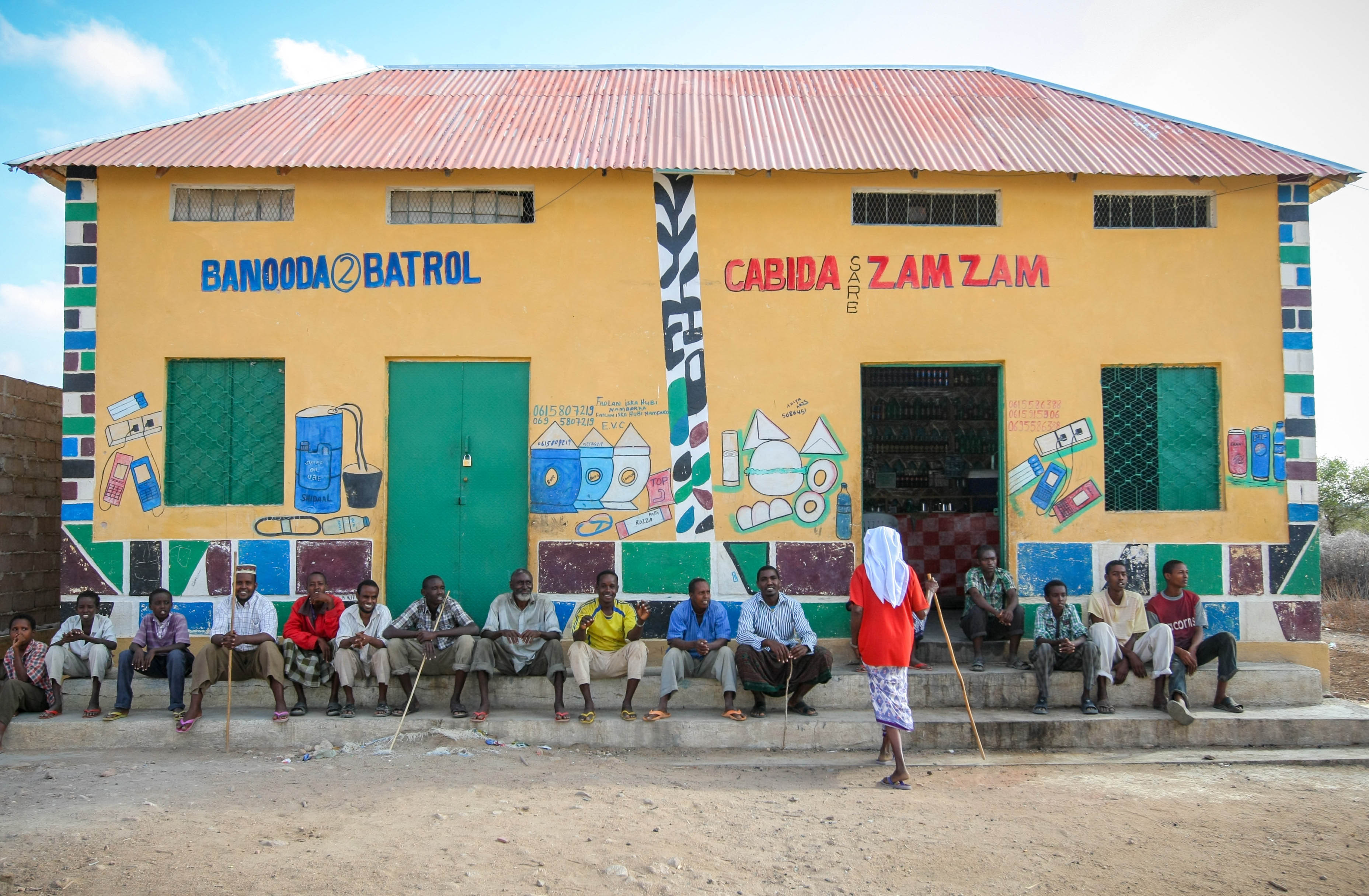 Somali civilians are seen in the central Somali town of Buur-Hakba following it's capture by the Somali National Army (SNA) and Ugandan forces serving with the African Union Mission in Somalia (AMISOM). The SNA, supported by AMISOM forces captured the strategically important town 27 February 2013, on the Afgooye-Baidoa corridor in Bay region from Al-Qaeda-affiliated extremist group Al Shabaab without any resistance, marking a significant loss for the group. The town, located 64kms east of Baidoa, was a stronghold of the Shabaab where they extorted high levies of illegal taxation on the local civilian populations and used it as a base from where they planned and launched attacks against government forces and installations, AMISOM and the Somali population. Buur-Hakba is the latest in a string of significant territorial losses for the extremist group to SNA and AMISOM forces over the last 18 months, which has seen their area of influence and control over towns and areas across Somalia steadily decrease. AU-UN IST PHOTO / STUART PRICE.